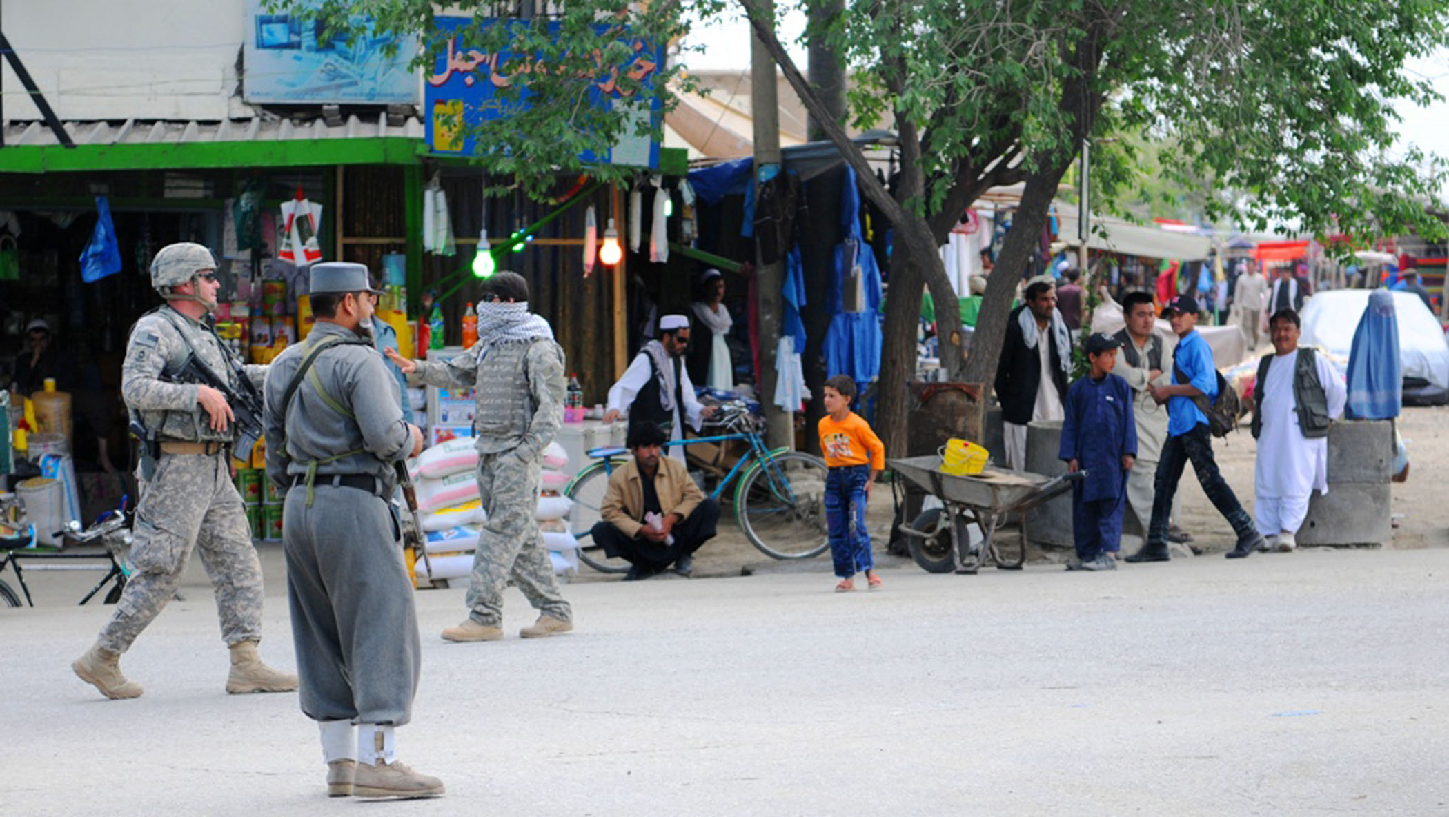 PARWAN PROVINCE, Afghanistan –U.S. Army Master Sgt. Donald Demar, non-commissioned officer in charge of Operational Coordination Center – Provincial, pulls security next to an Afghan National Police Officer on the street in Charikar outside the midwife academy, April 10. The ANP were in charge of security for a joint security effort with the Afghan National Army and U.S. Soldiers attached to the 1st Squadron, 172st Cavalry Regiment, 86th Infantry Brigade Combat Team at a graduation for 29 midwives, April 10. (Photos by U.S. Army Staff Sgt. Whitney Hughes, Task Force Wolverine Public Affairs)